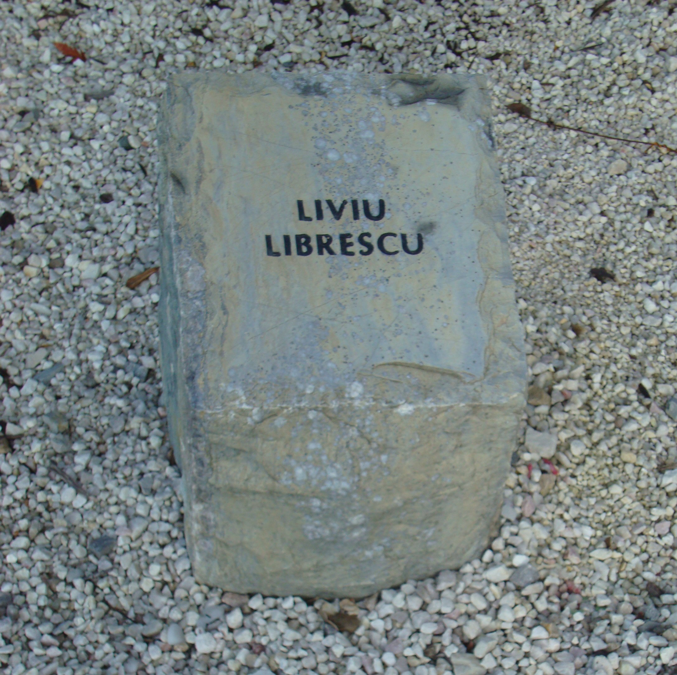 Liviu Librescu's marker at the Virginia Tech massacre memorial